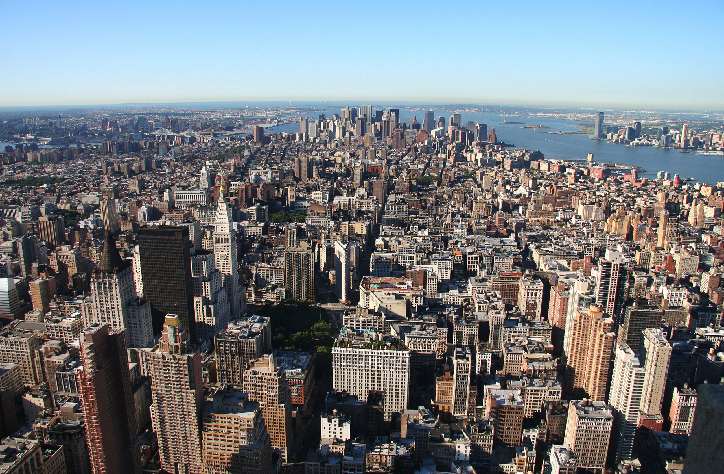 Manhattan, New York City